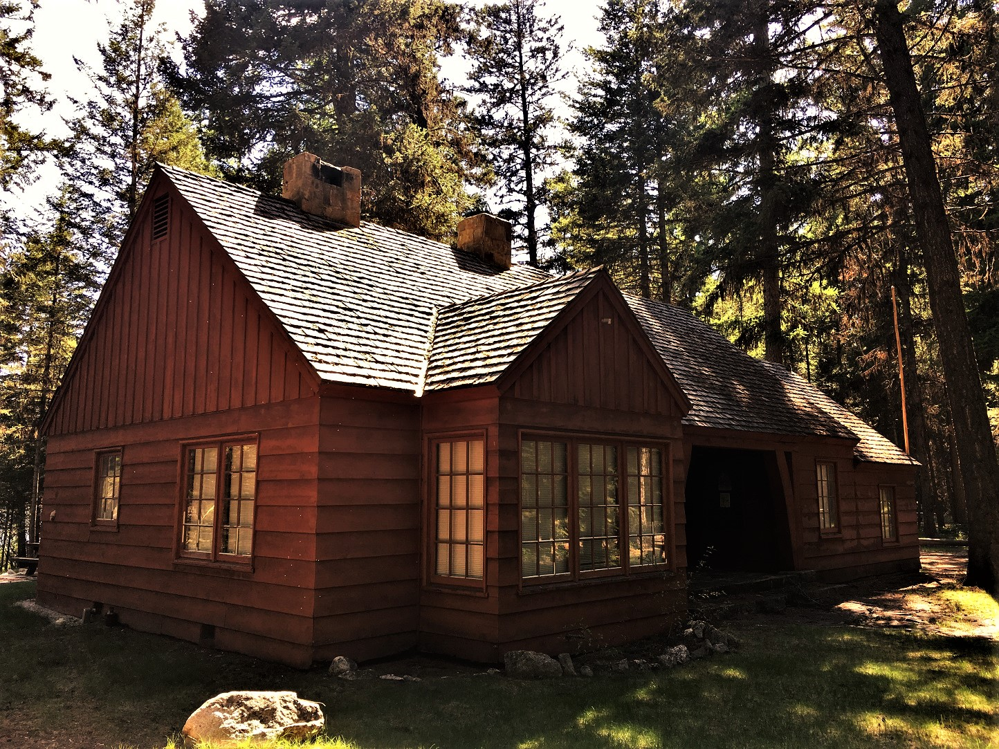 Lost Lake Guard Station Completed in 1941 by the WPA.